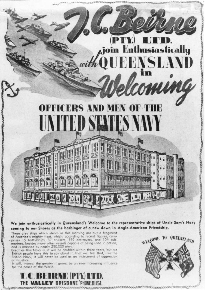 Advertisement in the Brisbane Telegraph newspaper from T. C. Beirne department store Patriotic copy on the occasion of the visit of the American Naval Squadron on a goodwill visit to Australia, March 1941.